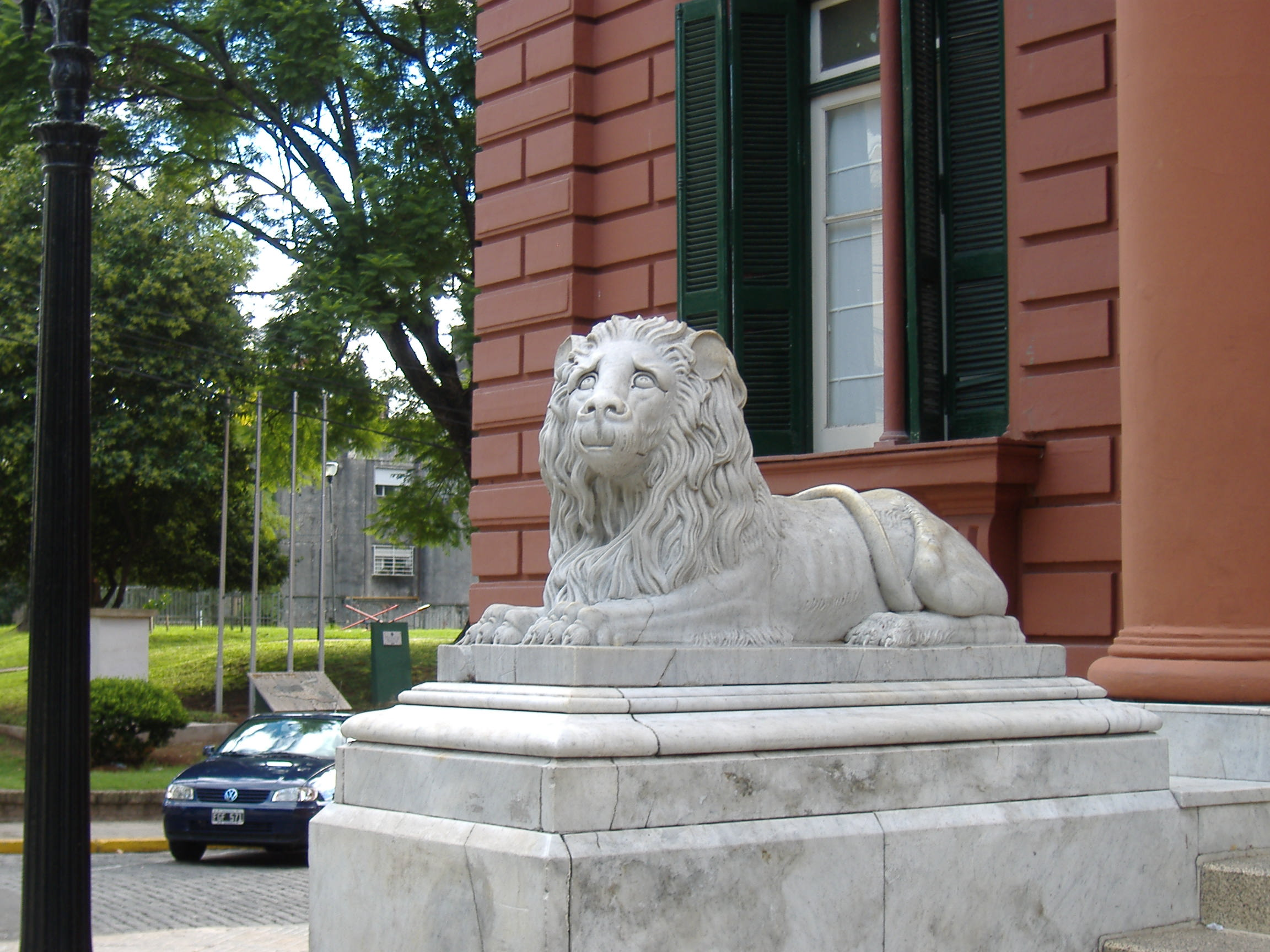 A closeup of a statue at the front of the Palacio de los Leones ("Palace of the Lions"), seat of the municipal executive branch in Rosario, Argentina (on Buenos Aires St. near Santa Fe St.). I, Pablo D. Flores, took this picture on 1 March 2006.